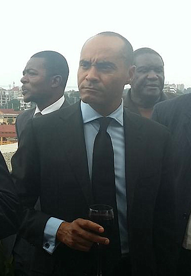 Deputy minister of international relations and national integration Franck Mwe di Malila